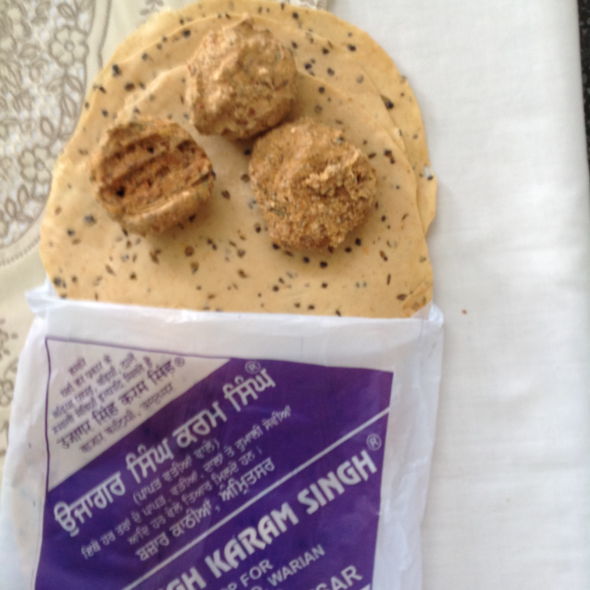 Image for typical food item from Amritsar Punjab